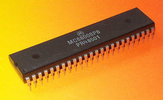 Motorola MC68008P8